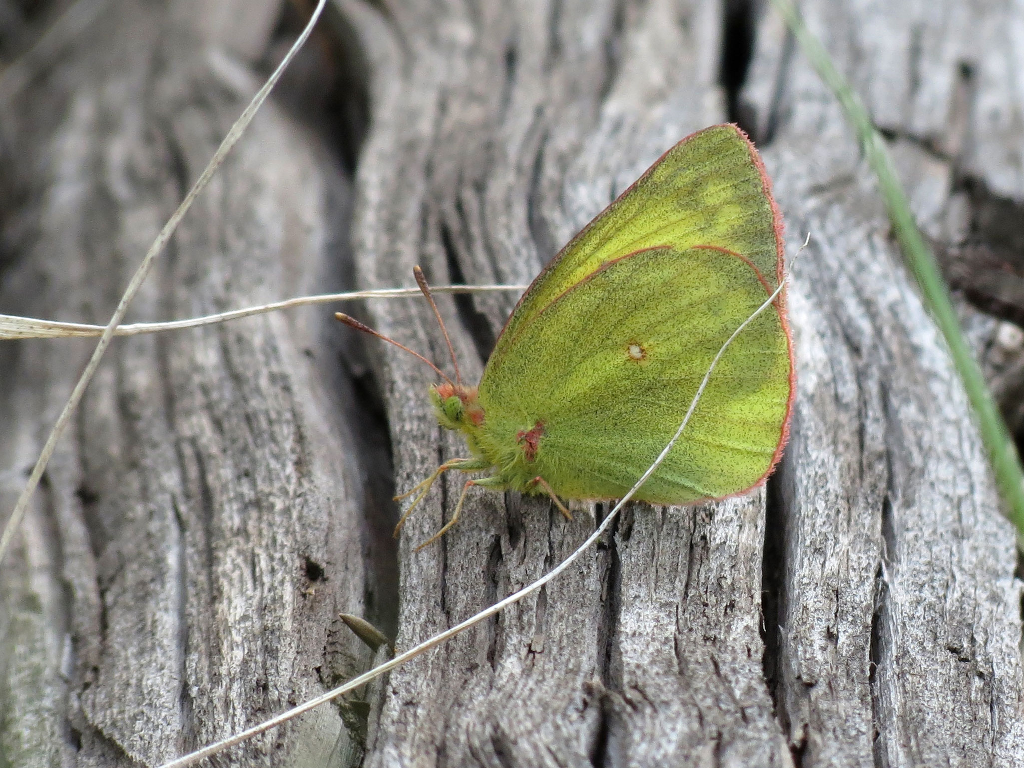 Colias christina. Idaho Centennial Trail near Elk Meadow, Stanley, Idaho